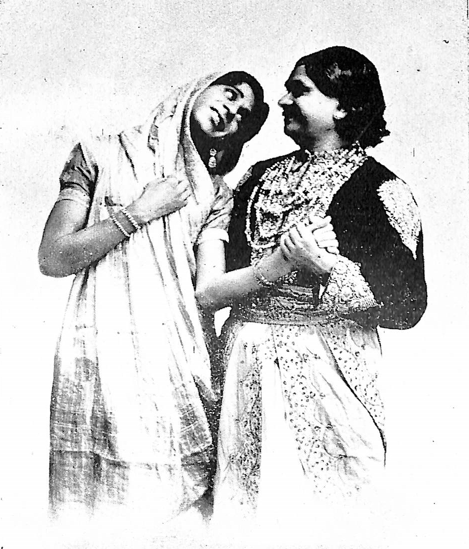 Bapulal Nayak (right) and Mohan Marwadi in a play 'Vasantaprabha' in 1922